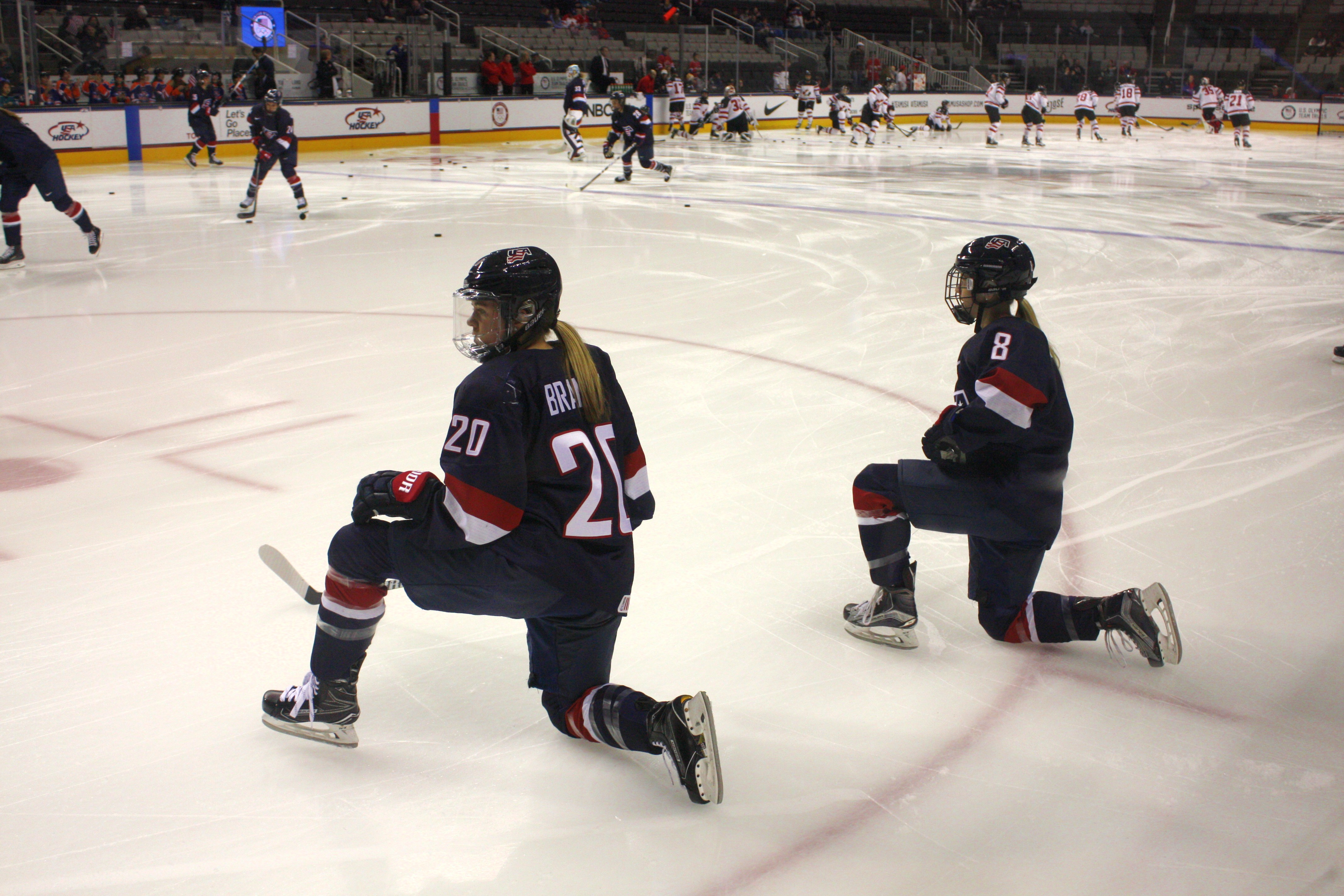 Team USA #20 Hannah Brandt warms up before the game.